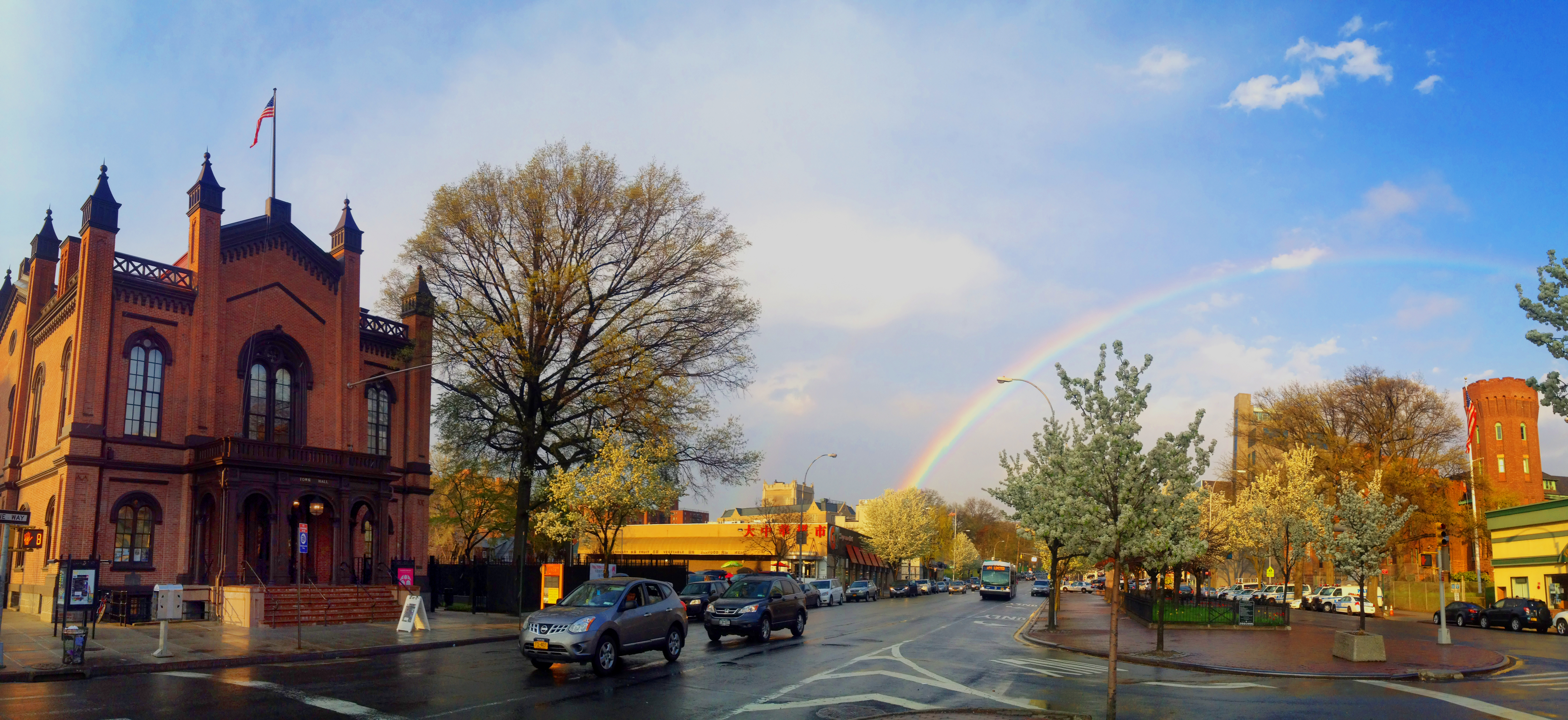 photo of the Flushing Town Hall bulding